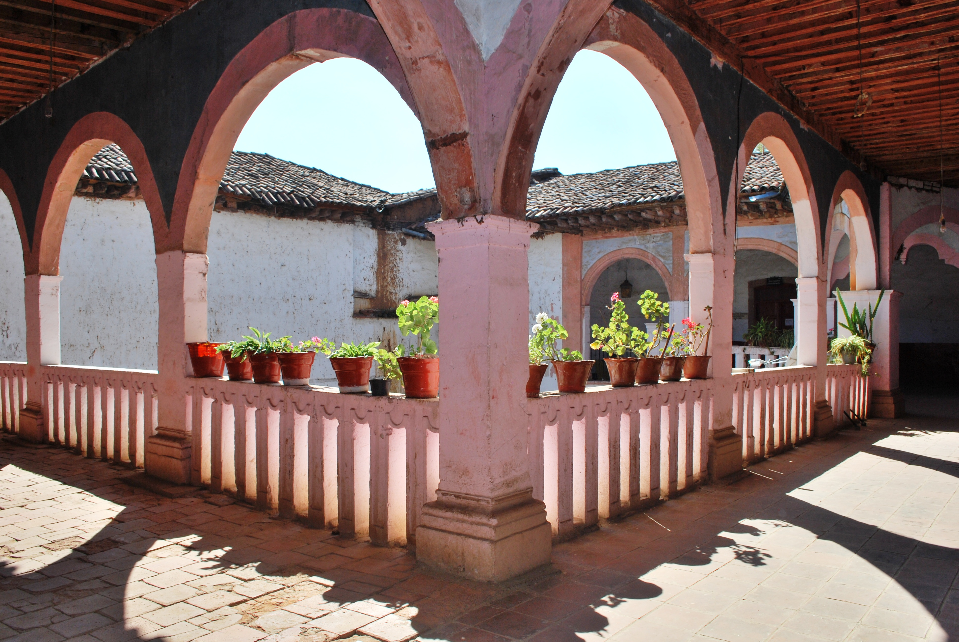 Upper floor of the Palace of Huitzimengari in Patzcuaro, Michoacan